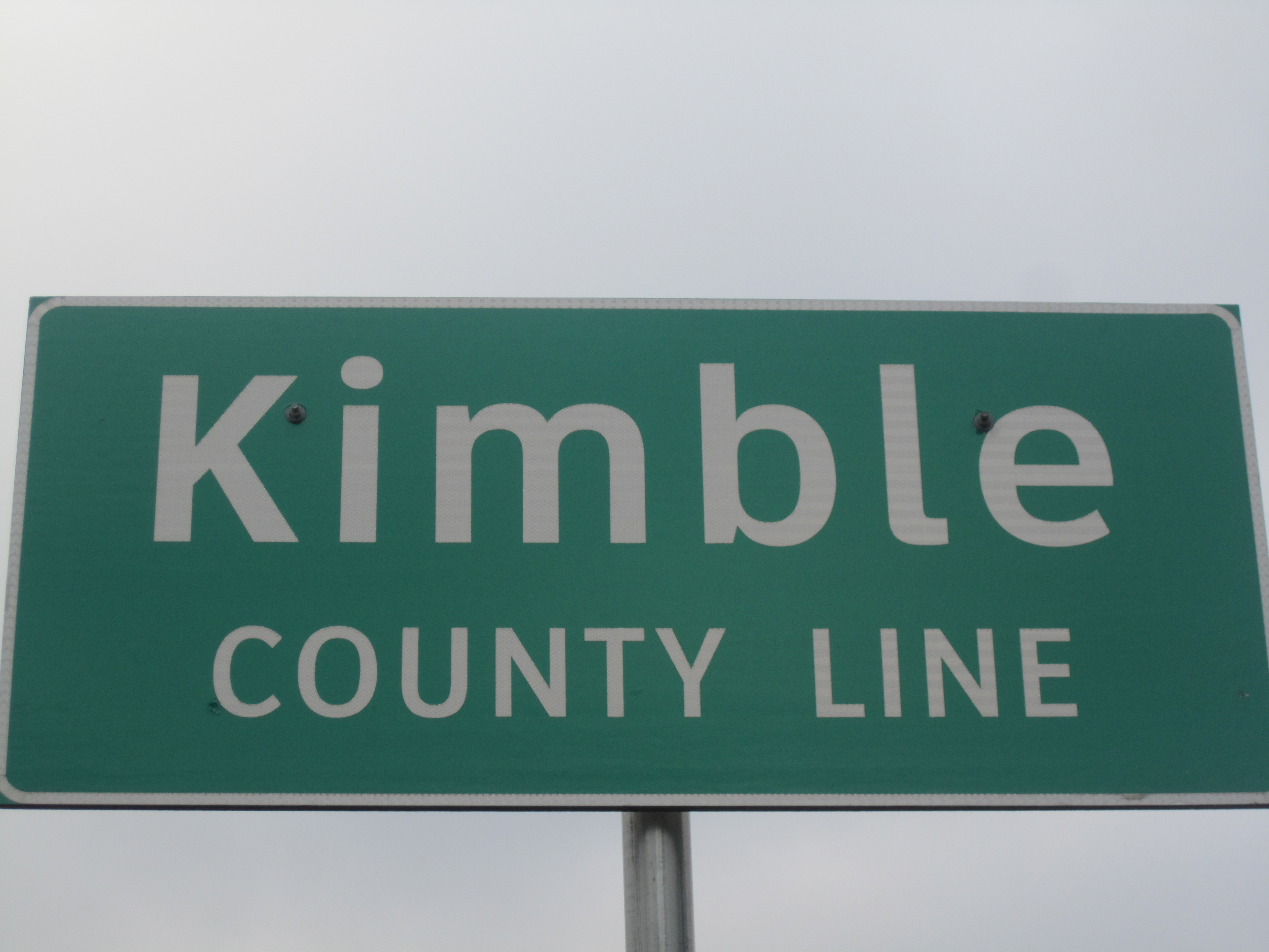 I took photo with Canon camera in Kimble Co., TX.